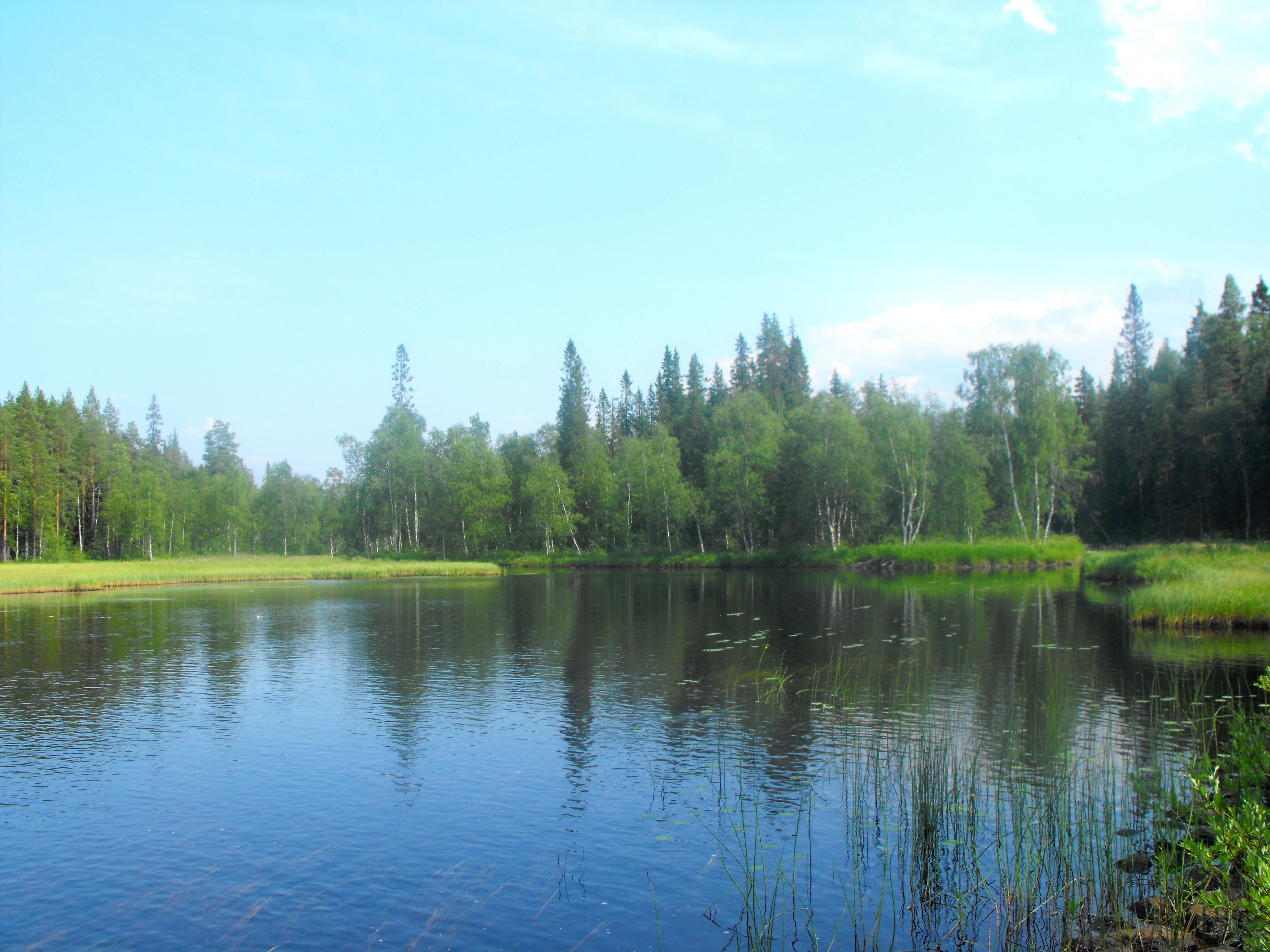 Kaba river, just south of the border of Kalevalsky National Park